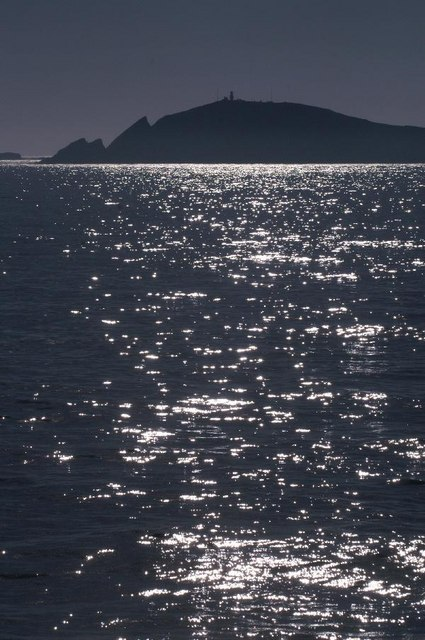 Sumburgh Head From the Aberdeen ferry, looking into the setting sun.